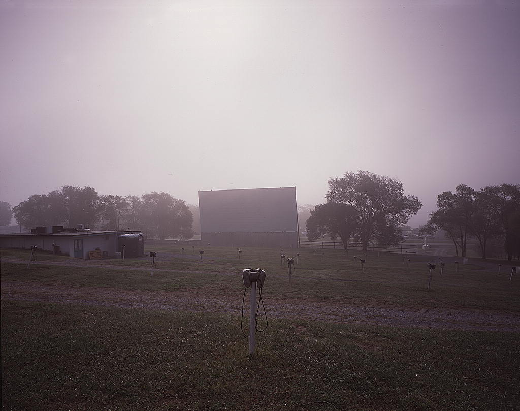 Hull's Drive In Theatre on Route 11 right outside of Lexington, Virginia